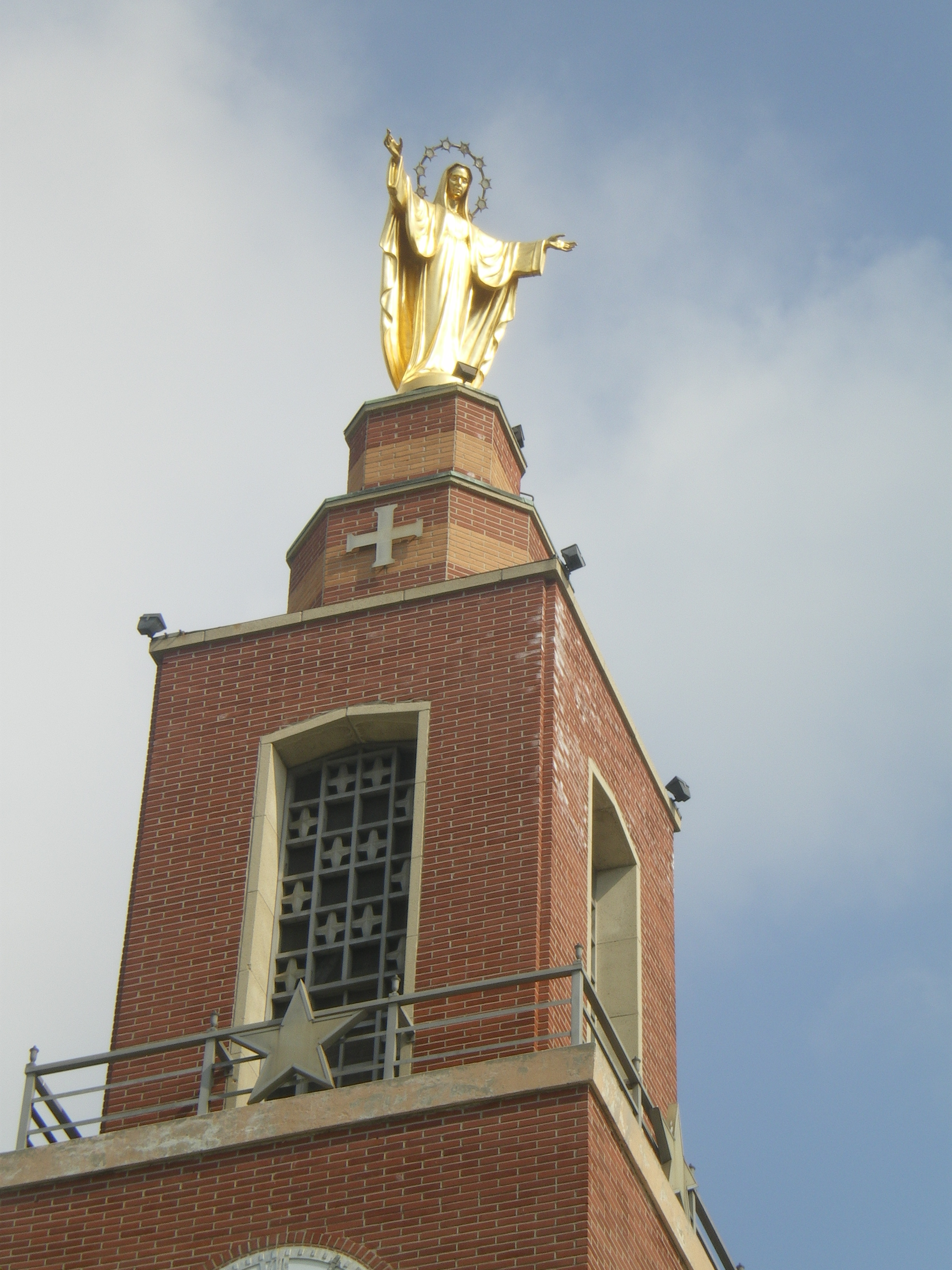 Bronze Statue of Mary atop Mary Star of the Sea Catholic Church, San Pedro, California